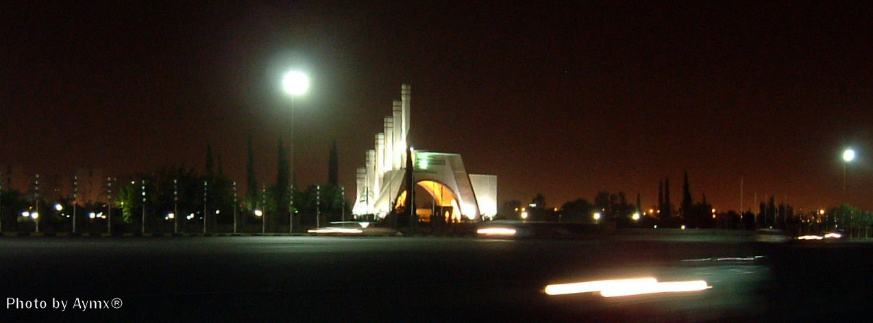 Sana'a - Yemen in Assab'ain Street. Photo taken by Aymx